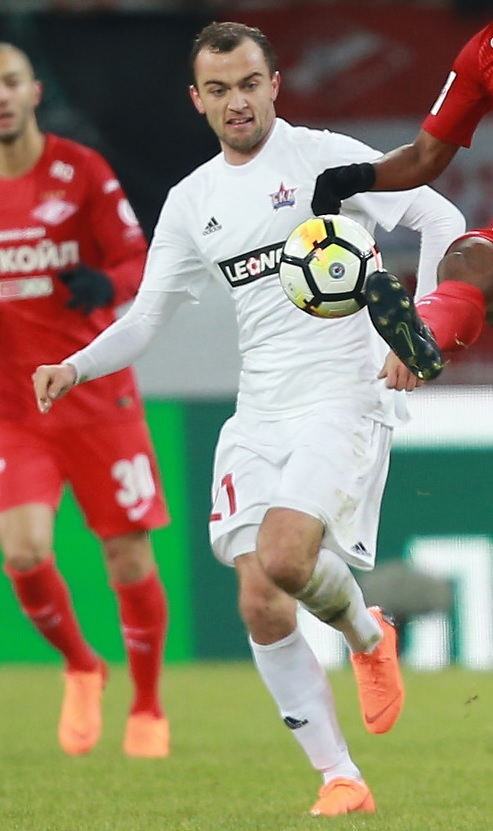 Artyom Samsonov with FC SKA-Khabarovsk in a game against FC Spartak Moscow.